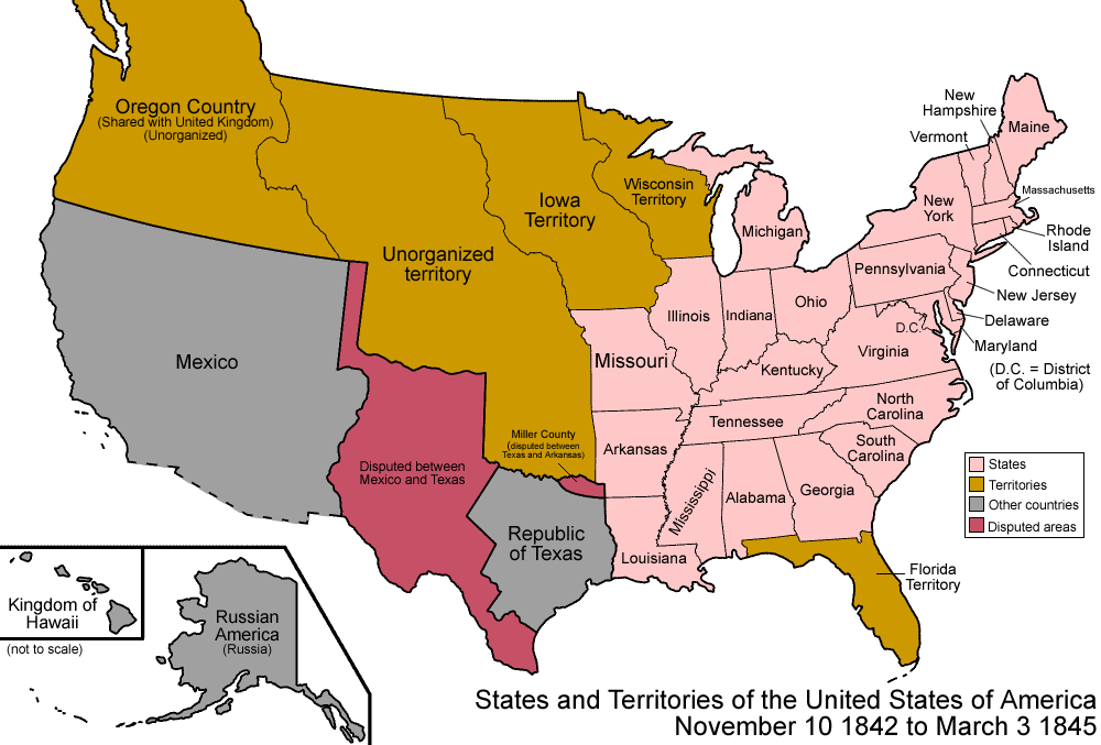 Map of the states and territories of the United States as it was from 1842 to March 1845. On November 10 1842, a treaty settled all border disputes with lands held by the United Kingdom. On March 3 1845, Florida Territory was admitted as the state of Florida.